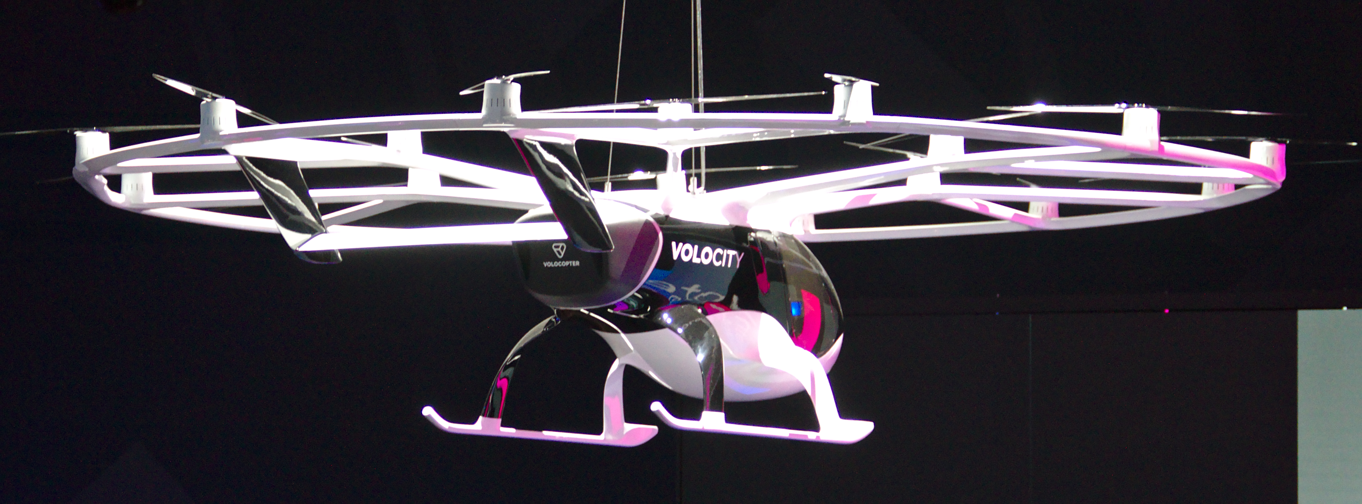 Mercedes-Benz_Volocity at IAA 2019